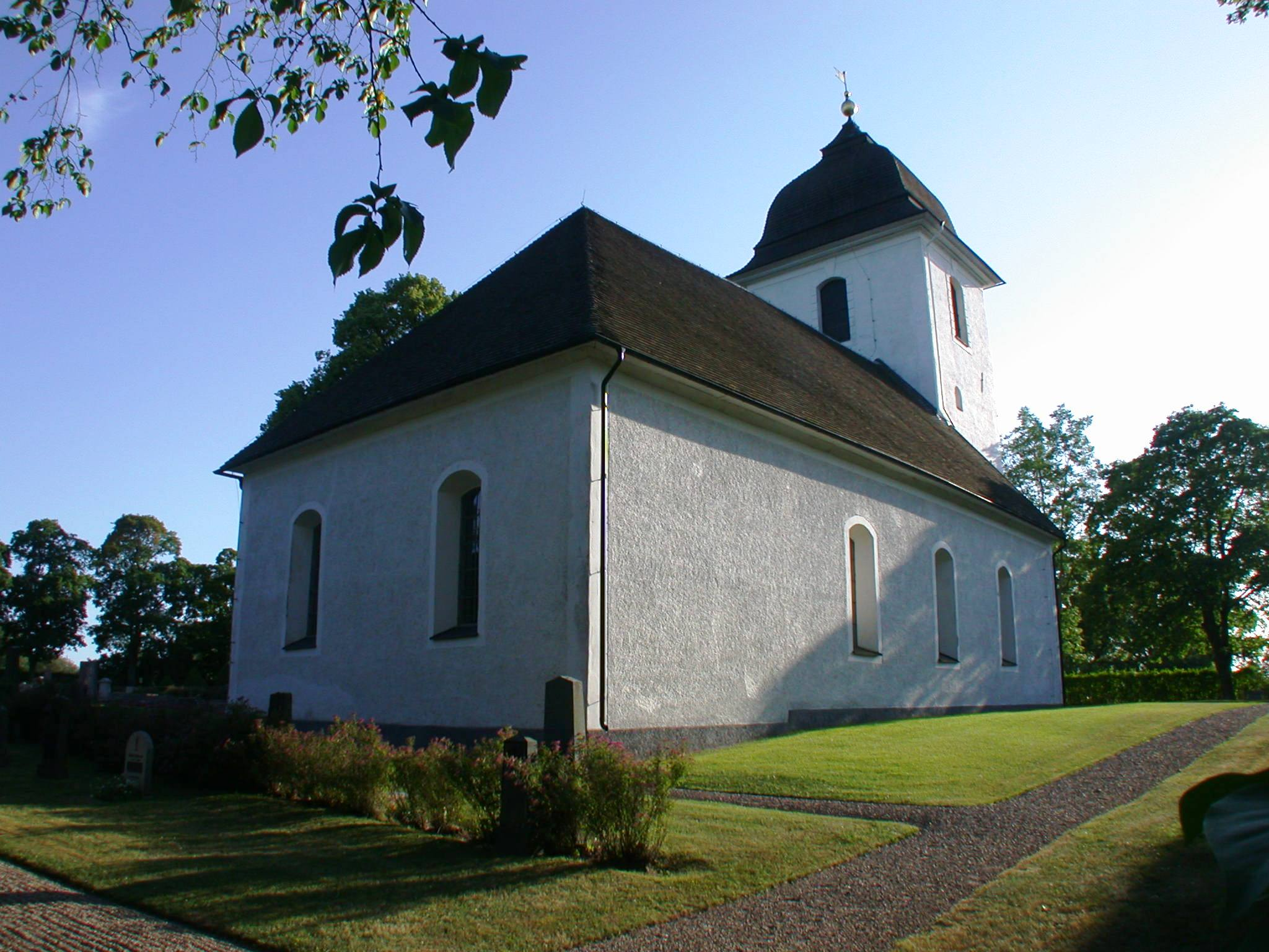 Normlösa church, Mjölby, Sweden. Photo by Riggwelter July 12, 2006.